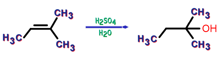 terc-amyl alcohol synthesis from β-isoamylene